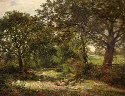 Painted on the spot..... Sweet Summer by David Payne Payne (1843 – 1894) was a Scottish landscape painter.